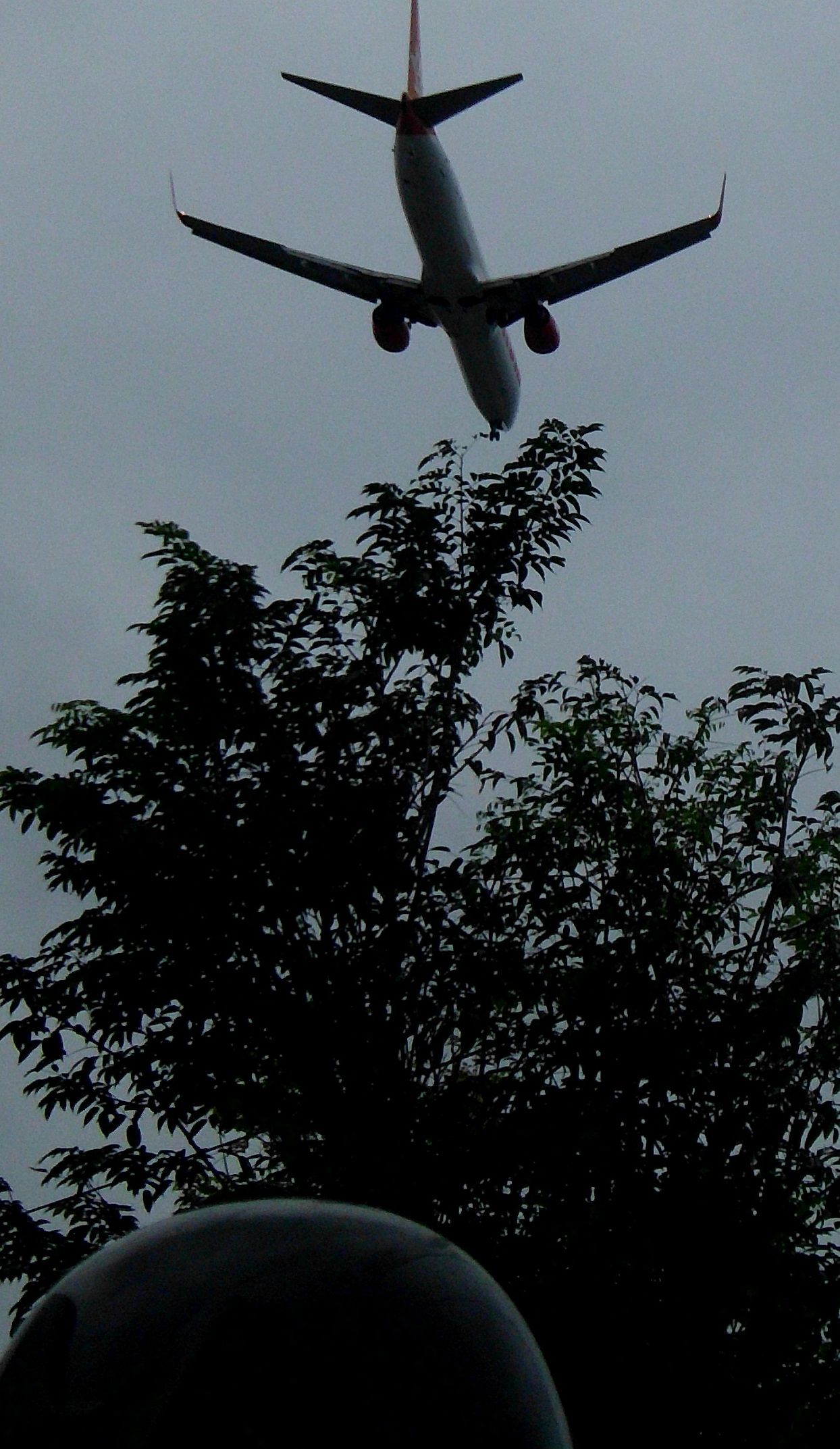 An airplane on Final Approach to Sultan Aji Muhamad Sulaiman Airport